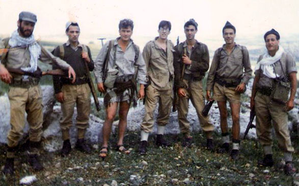 The actors who played the Israeli troops that occupied the fictional village Khirbet Khize in the eponymous Ram Loevy film: Amos Tal Shir, Itzik Aloni, Dalik Volonitz, Gidi Gov, Avi Luzia, Shraga Harpaz, and Avraham Sidi.